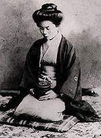 A 1910 photograph of Chizuko Mifune.